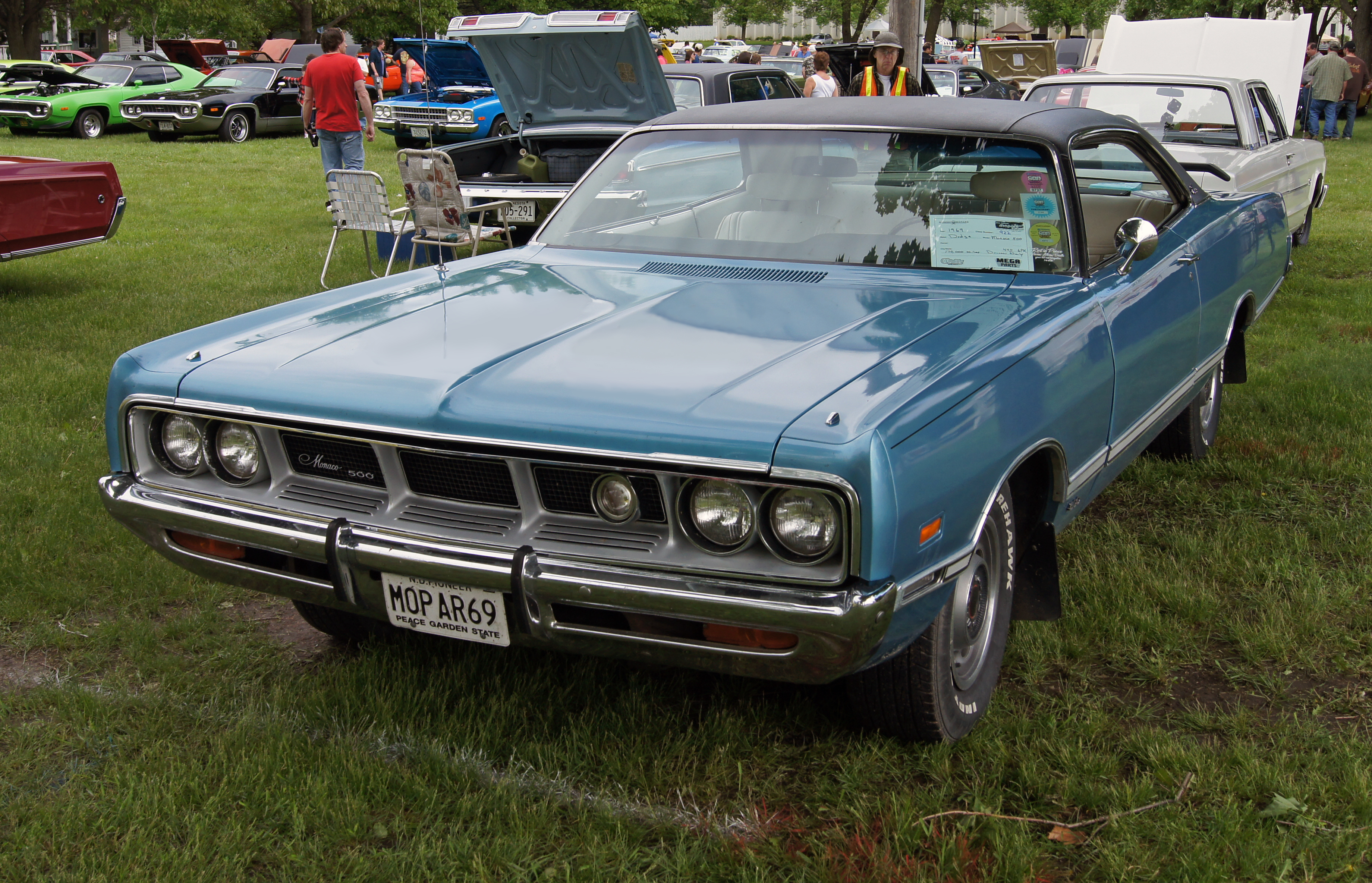 1969 Dodge Monaco 500 Hardtop with a 440 six-pack at the 29th Annual Midwest Mopars in the Park Car Show & Swap Meet.